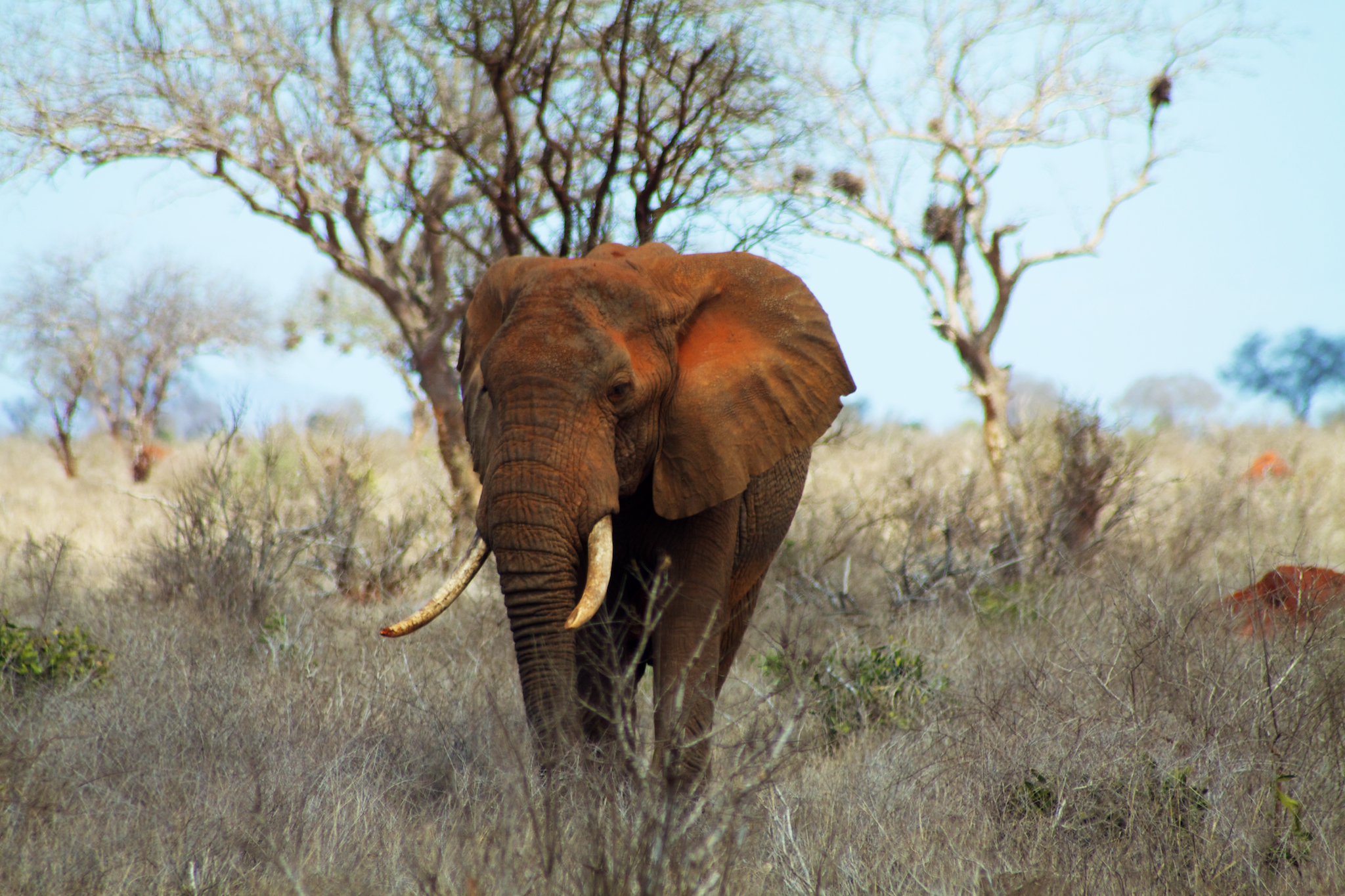 The elephants are Tsavo East are red from the local mud they like to apply over themselves. A day safari in the large and less developed Tsavo East National Park in eastern Kenya.